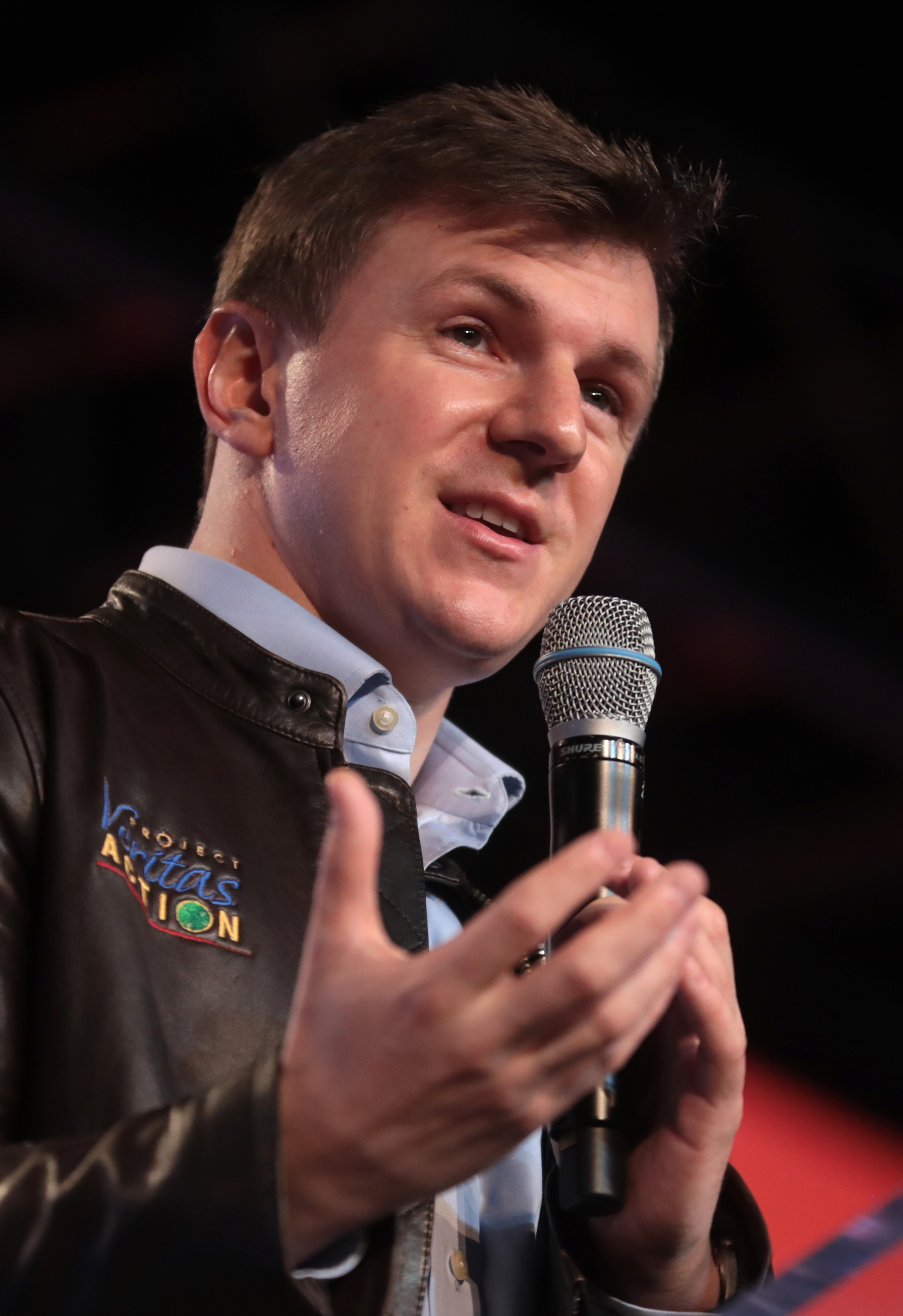 James O'Keefe speaking at an event in West Palm Beach, Florida.